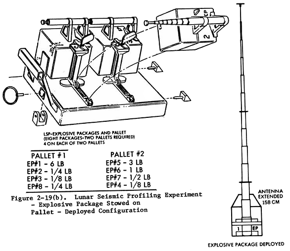 Diagram of a charge from the Lunar Seismic Profiling Experiment. Part of the ALSEP. Explosive Packed Stowed on Pallet - Deployed Configuration